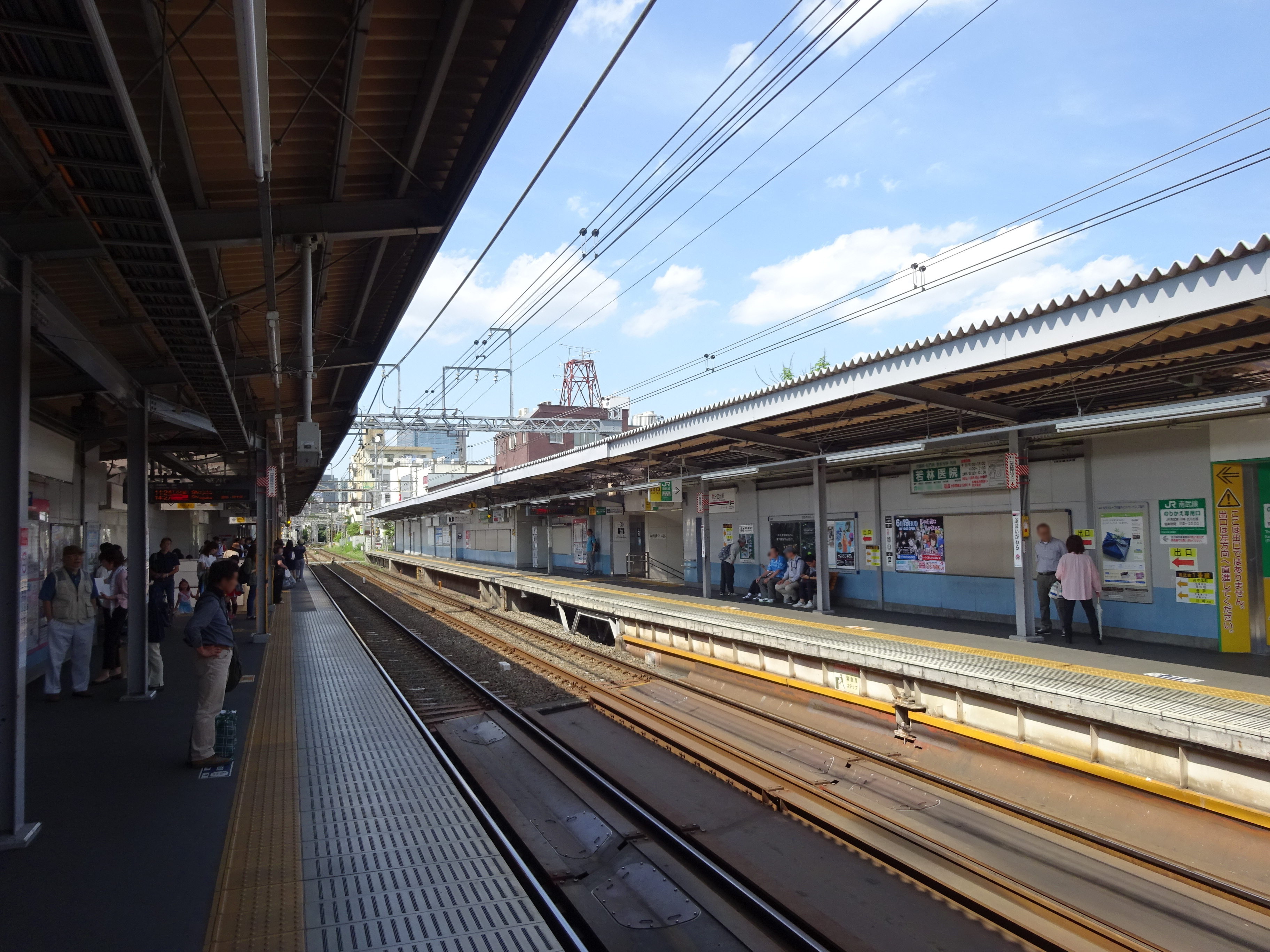 Platforms of Bubaigawara Station(Keio)